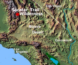 Mojave Desert © 2004 Matthew Trump